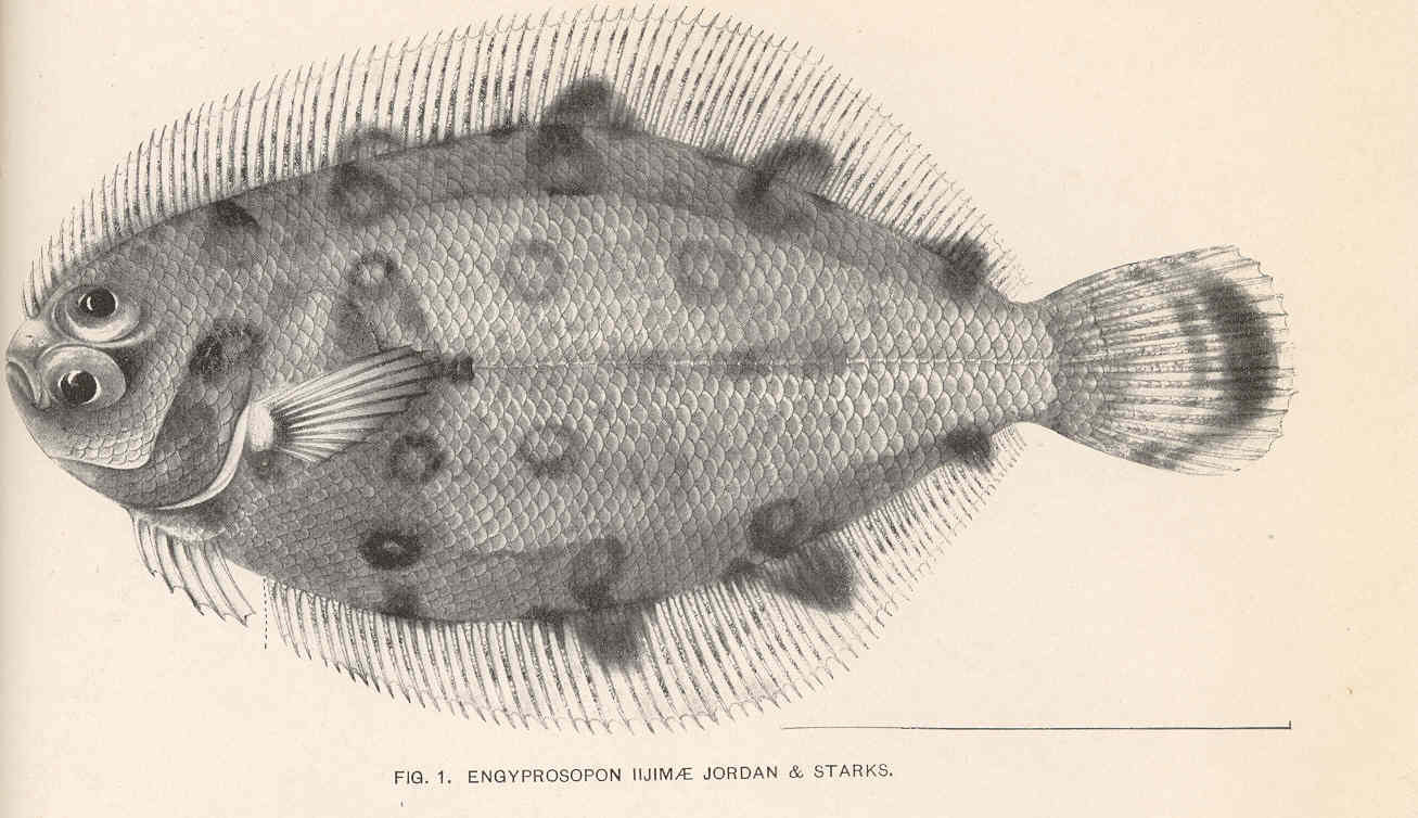 Engyprosopon iijimae Jordan & Starks Subject: Engyprosopon Tag: Fish